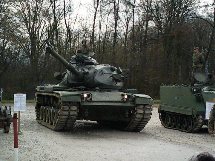 Bosnian M60A3 displayed next to an M 113, cca 2009